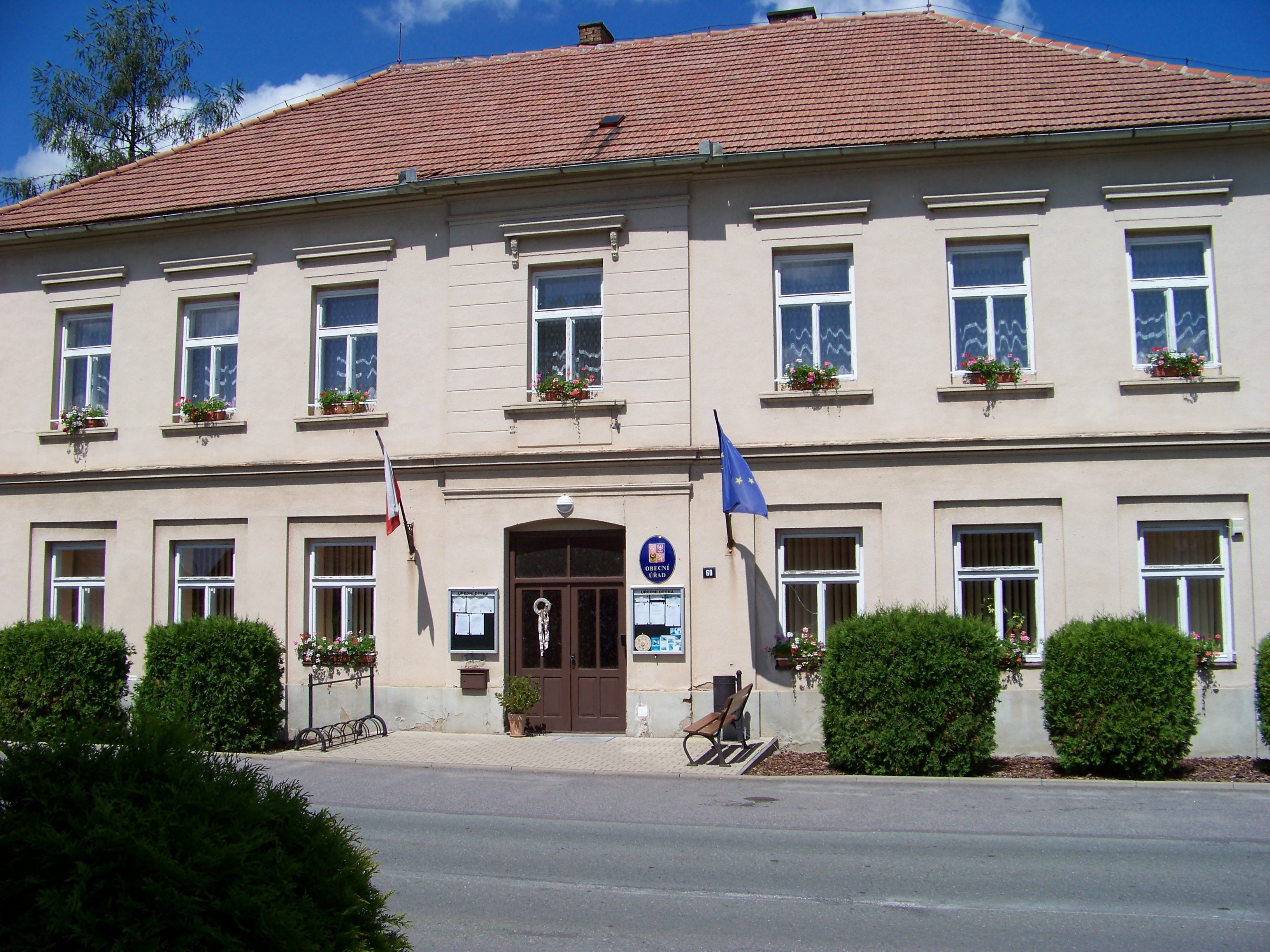 Veliny, Pardubice District, Pardubice Region, the Czech Republic. The main road (I/36), a municipal office. - OpenStreetMap(Info)